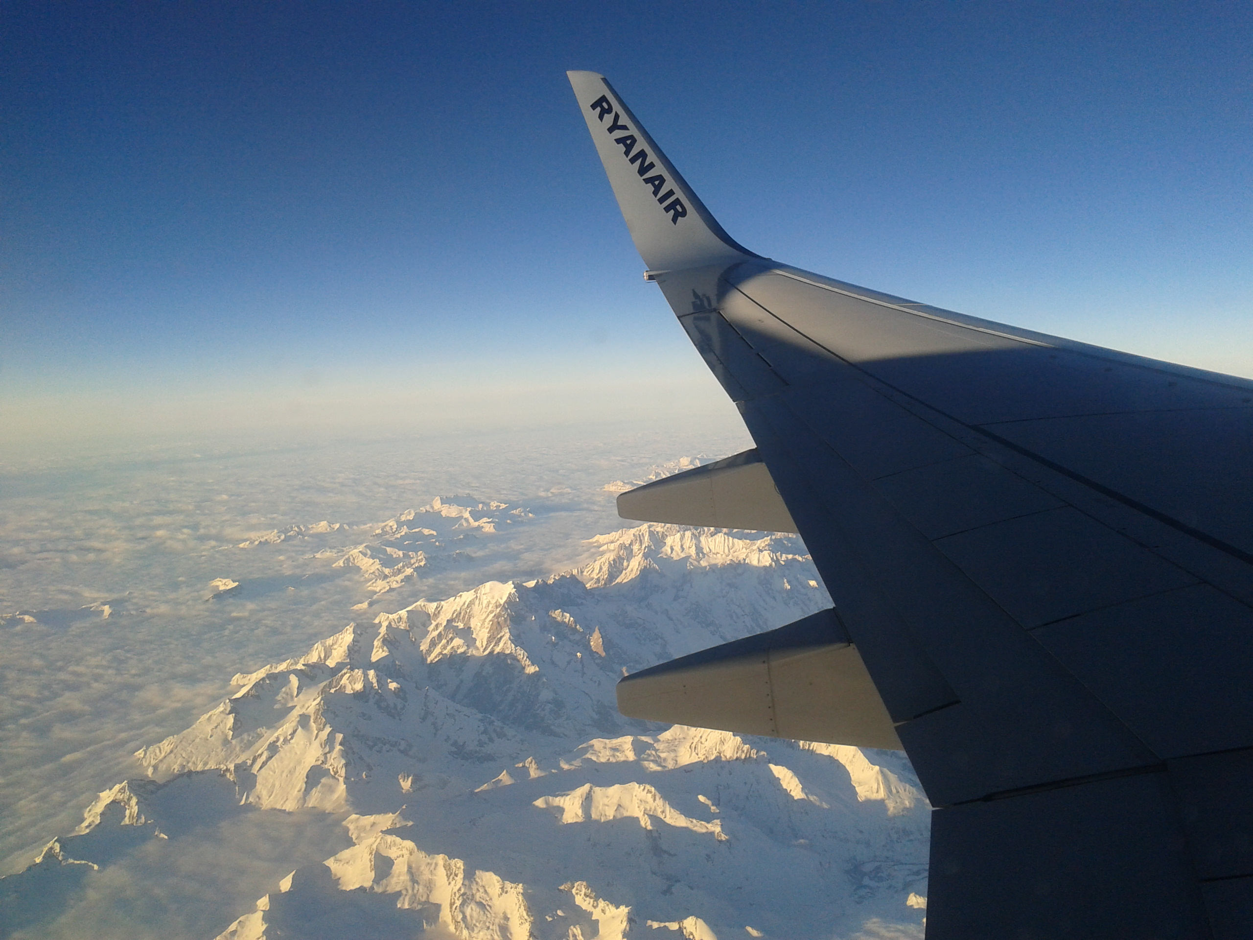 Ryanair Flying Over the Alps. February 2012.